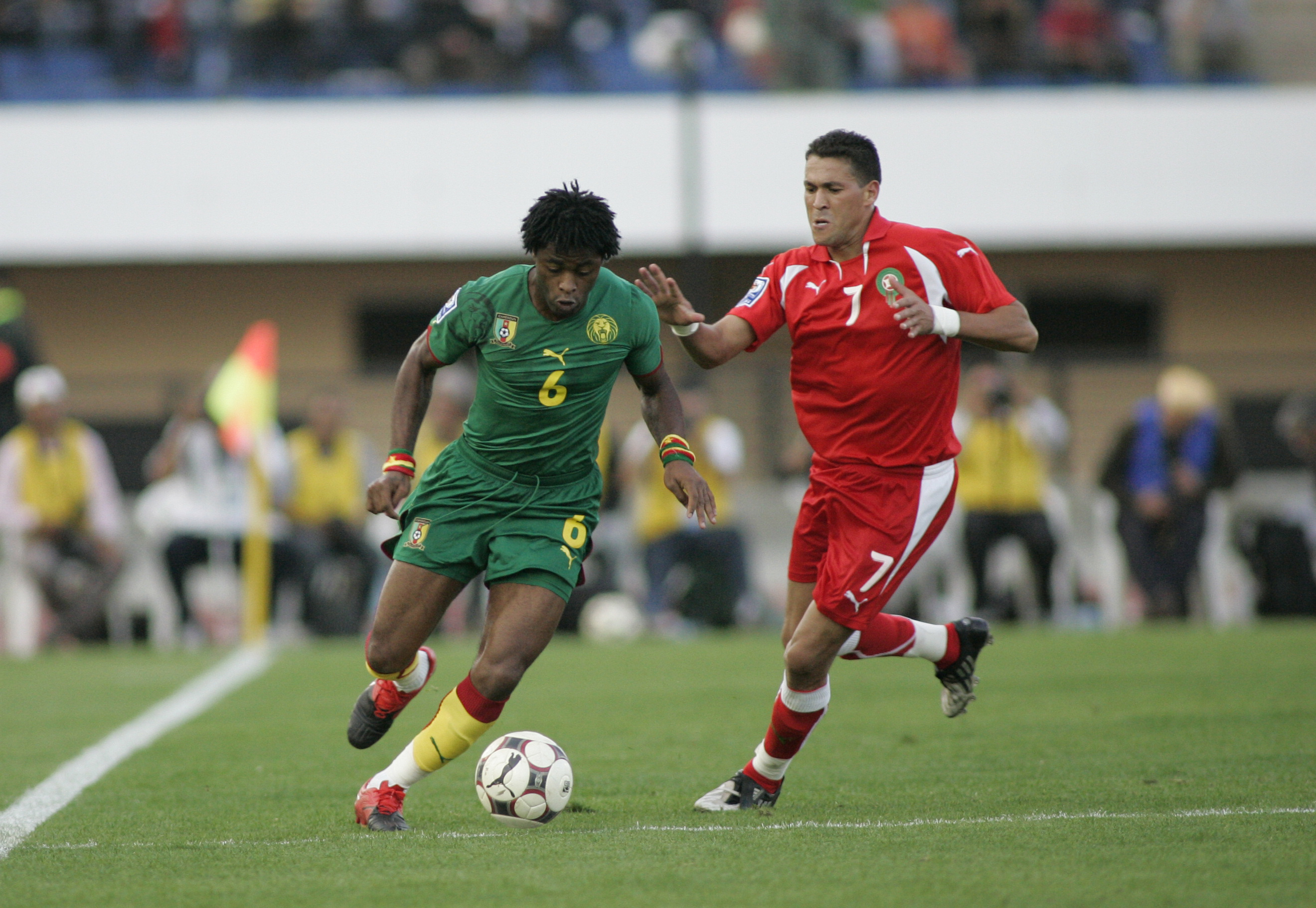 Cameroon's Alexandre Song and Morocco's Mohamed Chihani during match between their national sides.